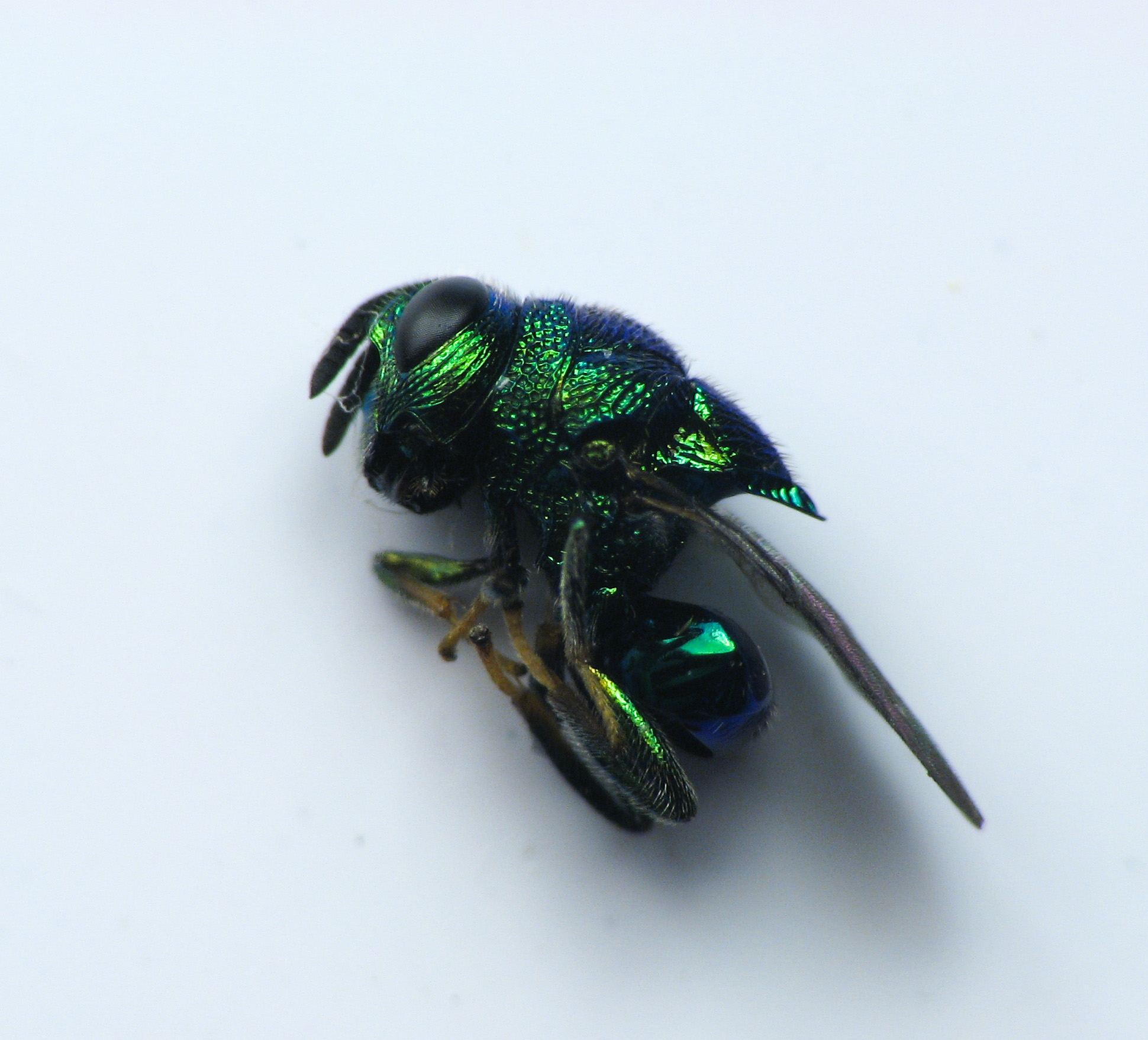 Parasitic wasp, Perilampidae, unknown species (possibly Euperilampis triangularis). Size: About 4 mm. Josie Porter Farm - Stroud Township, Monroe County, Pennsylvania, USA. June 16, 2012